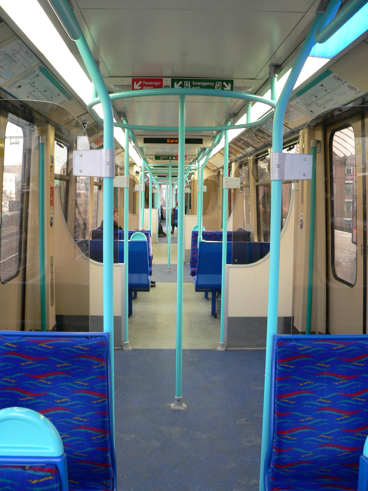 The interior of Docklands Light Railway train 49, a B92 stock unit.